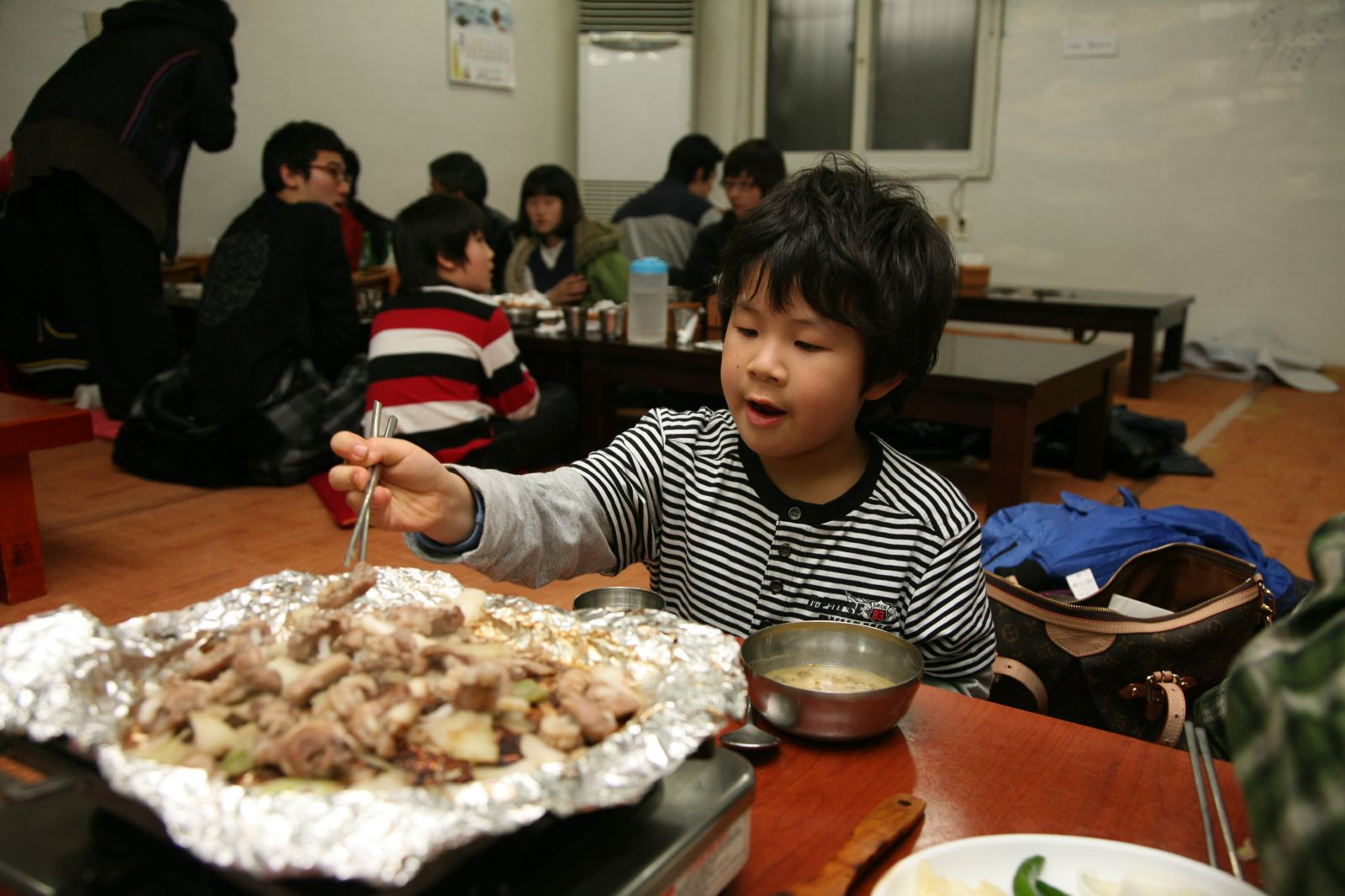 A view of a Busan, South Korea